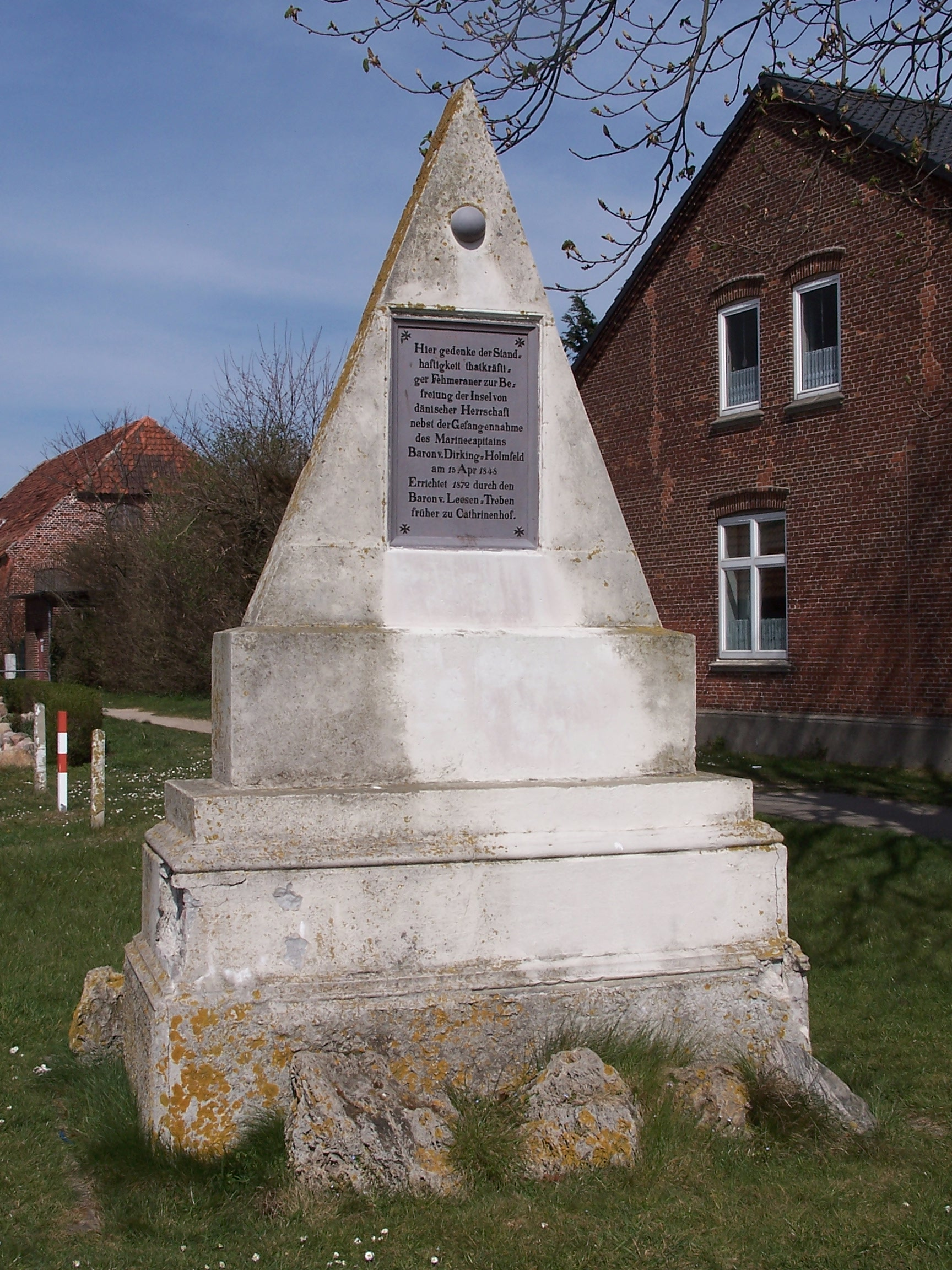 Memorial at the german island FehmarnDansk: Mindesmærke på den tyske ø Femern